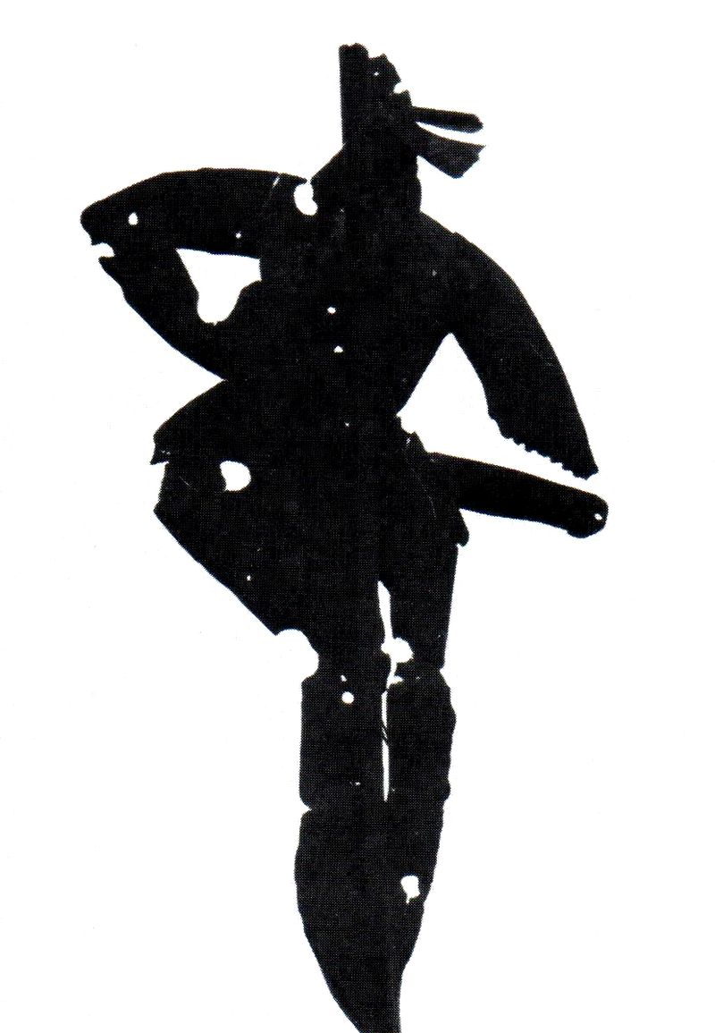 Denghrisi, shadow puppet from Pinguli village, Sawantwadi, Maharashtra